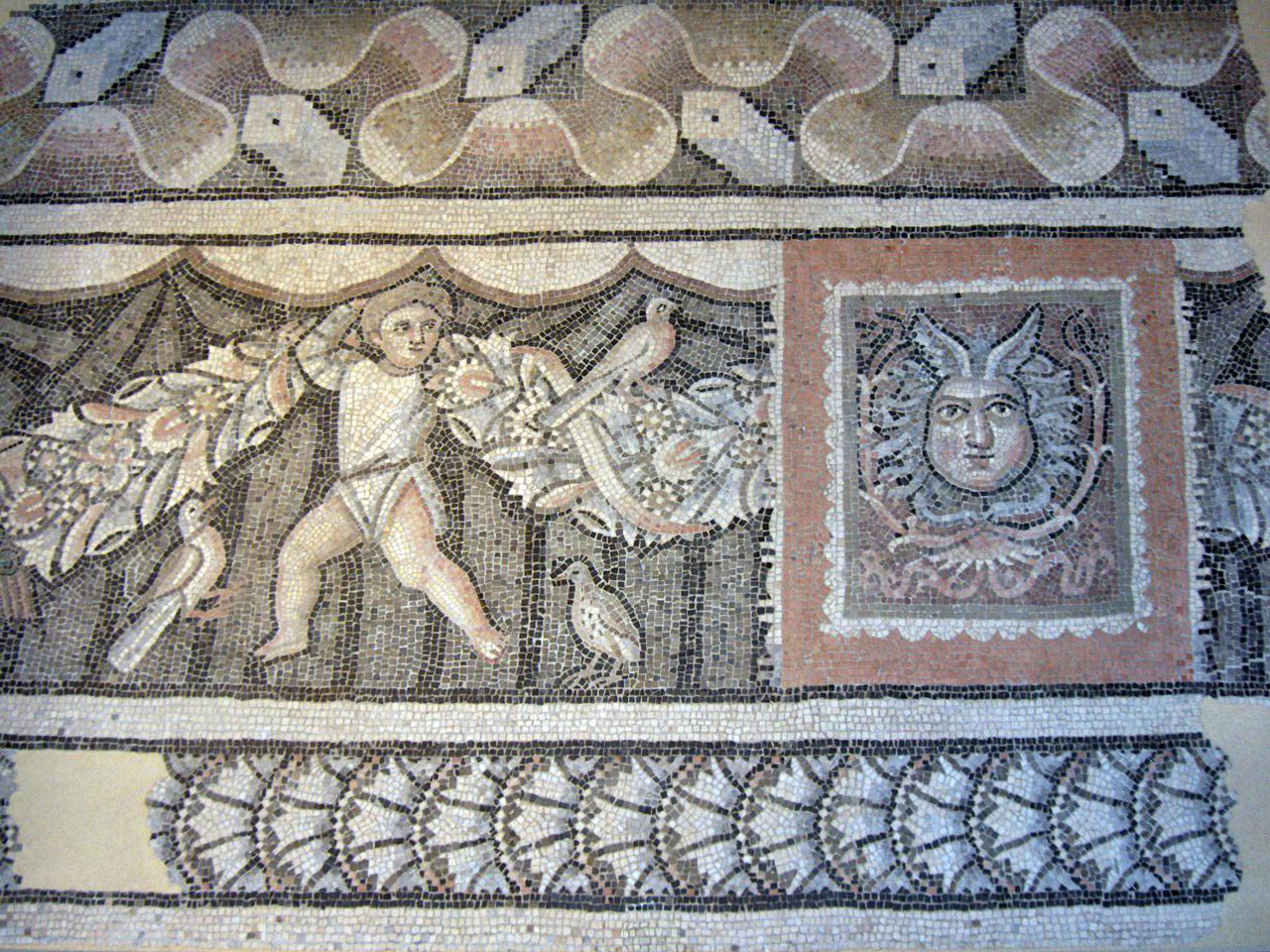 Floor mosaic of cupids and a Gorgoneia from a Roman house in Ariminum (Rimini, Italy); end 2nd - early 3rd century. On display at the Museo della città di Rimini.